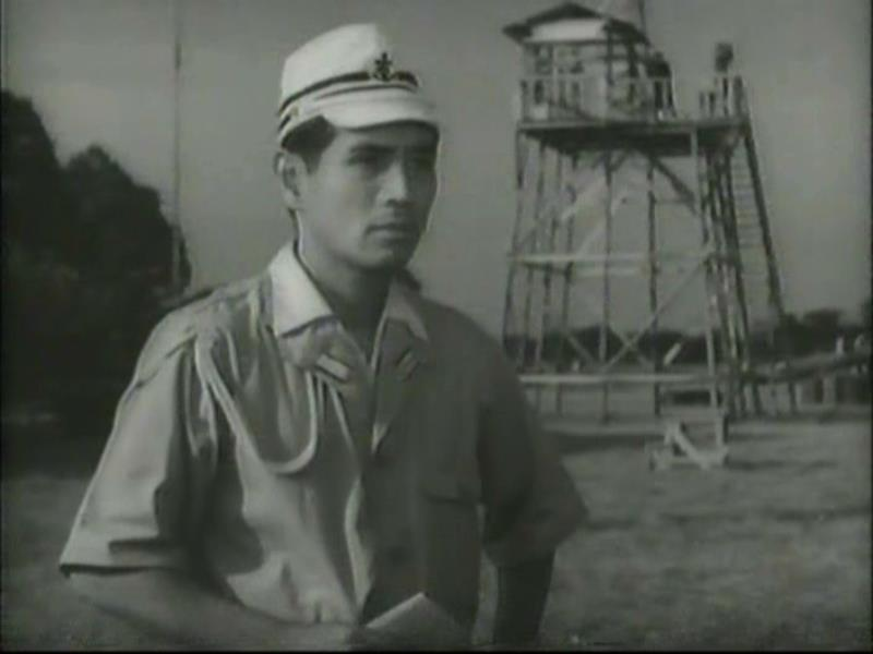 Masayuki Mori from Toho film "Raigekitai Shitsudo (Mobilization of torpedo bomber Corps)"(1944).